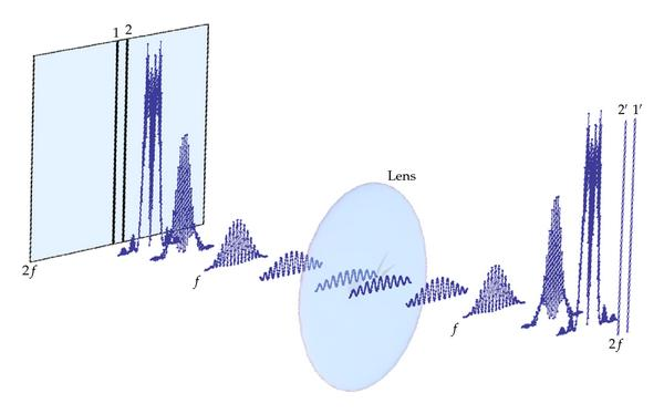 Action of a lens in a coherent dual-slit setup (Afshar experiment). The image has been published in: D. Georgiev (2012). Quantum Histories and Quantum Complementarity. ISRN Mathematical Physics Volume 2012 (2012), Article ID 327278, 37 pages.